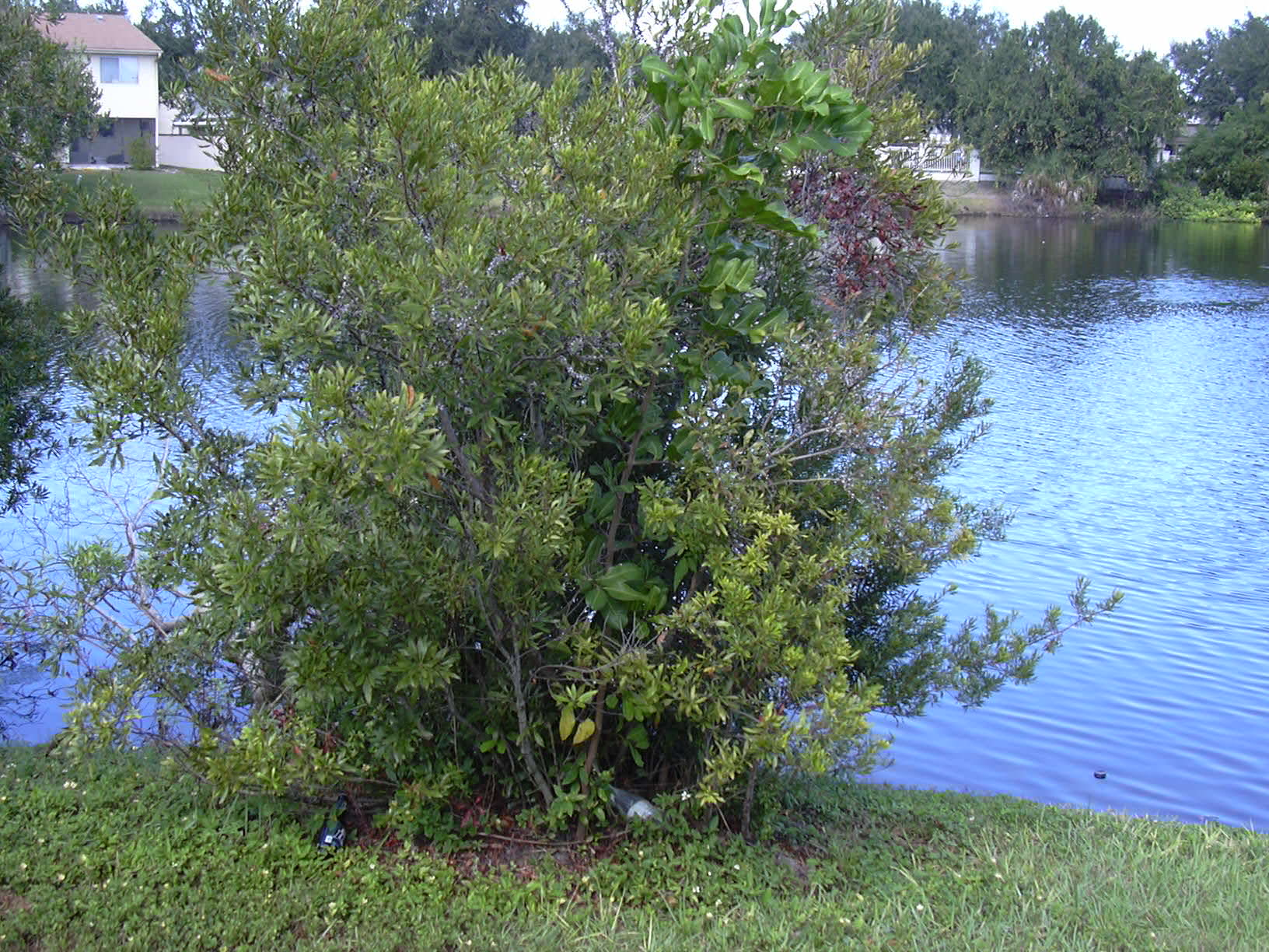 Morella cerifera (habit). Location: Florida, Sarasota